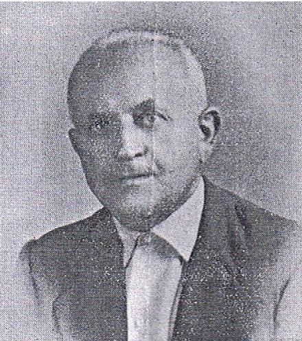 Luigi Carbonari